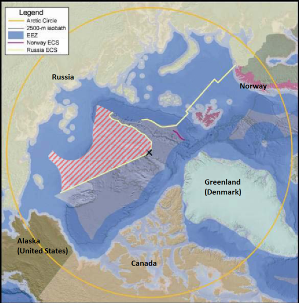 A map showing Russian claims in the Arctic Ocean.